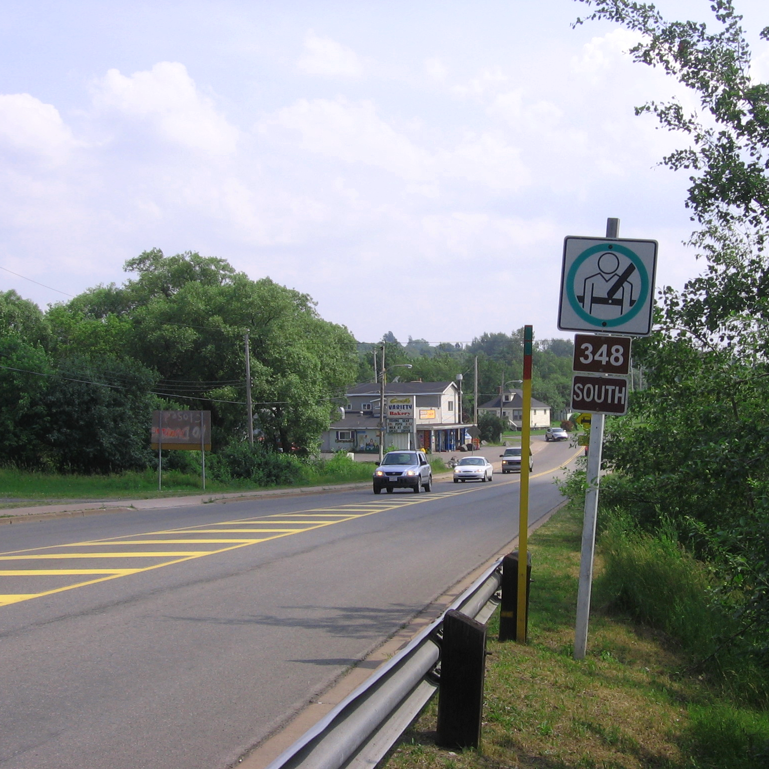 Photograph of provincial highway in Nova Scotia